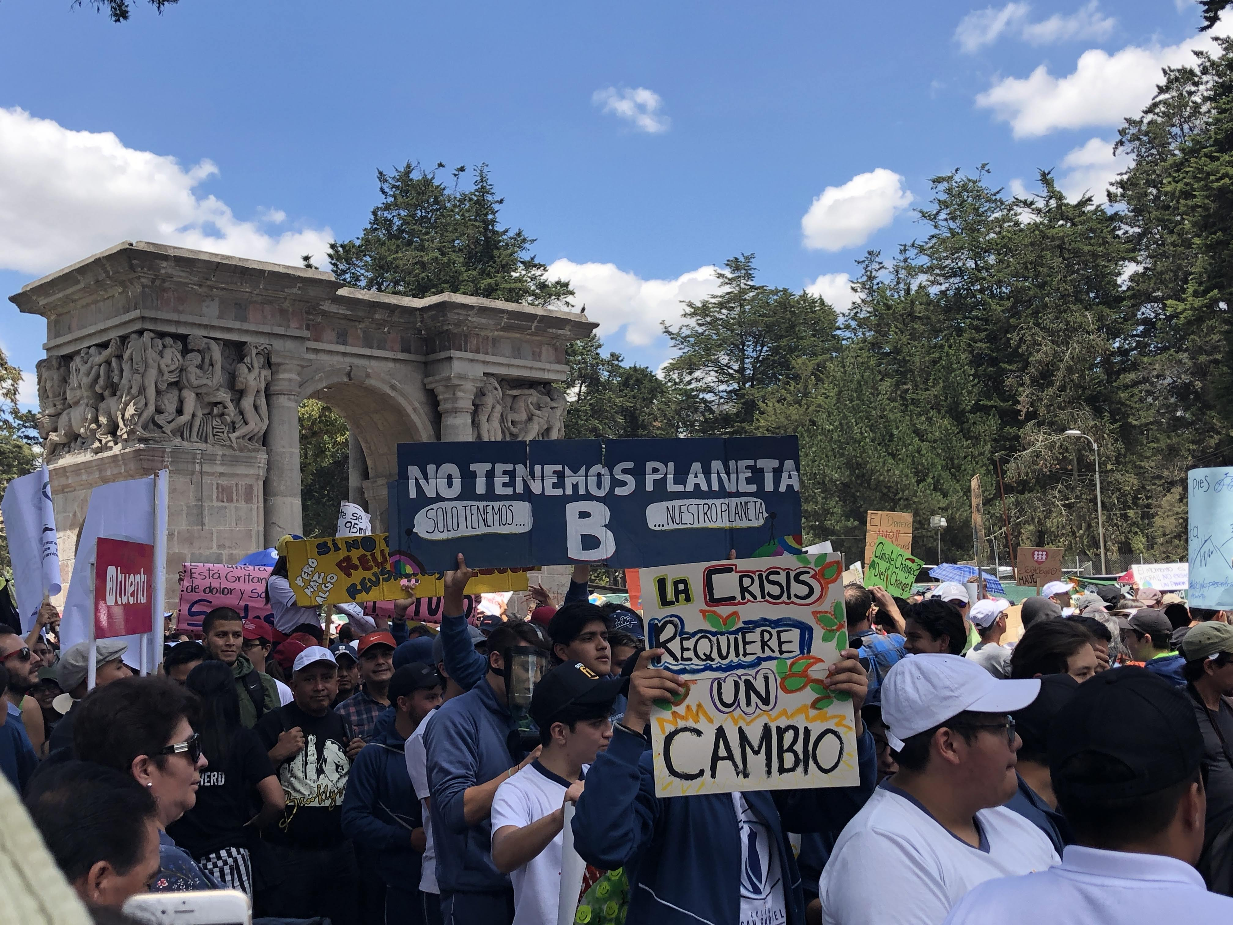 The Climate Strike on September 28, 2019 in Quito Ecuador